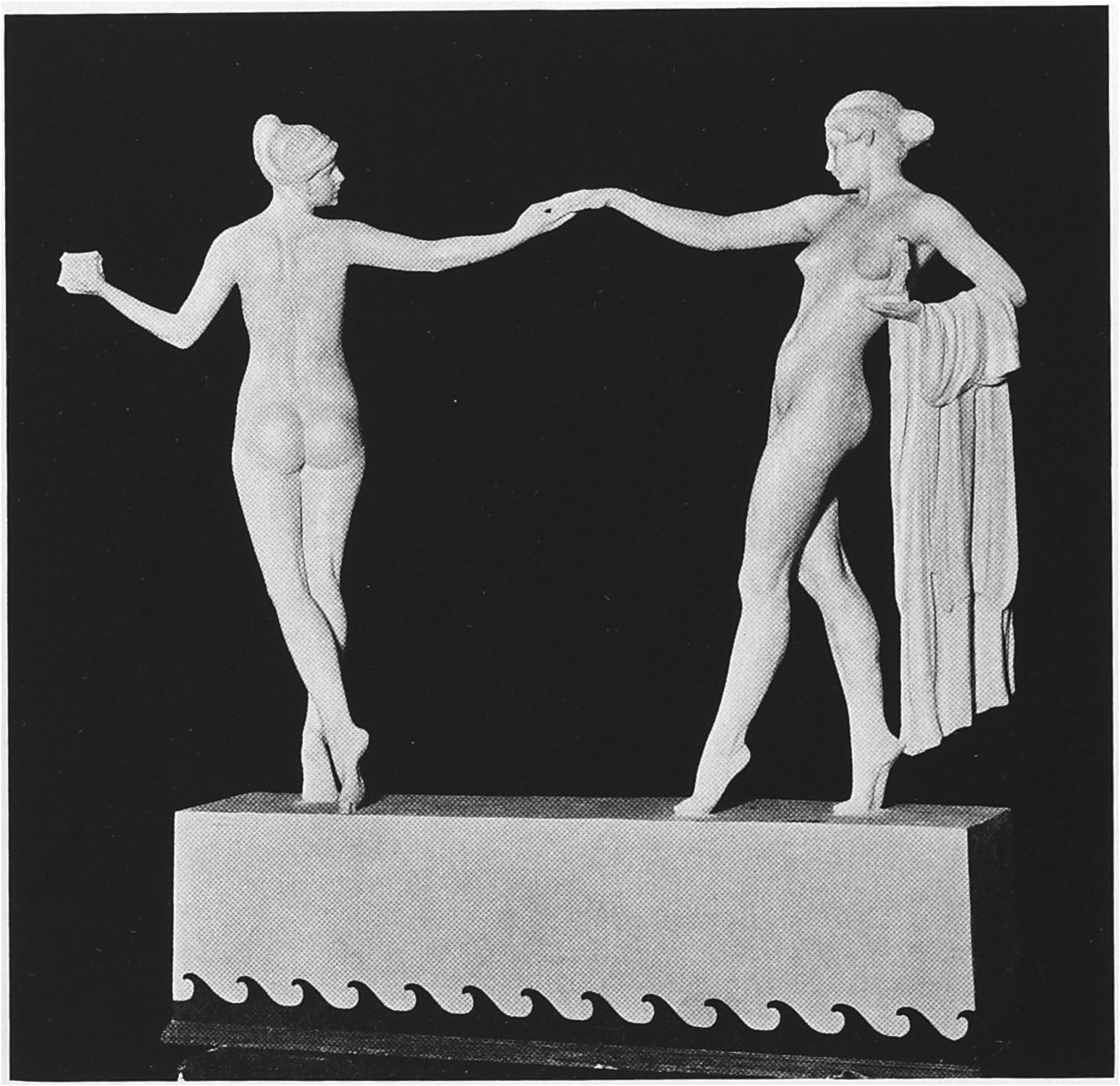 Allegorical bronze miniature sculpture by Mario Korbel, Architecture and Sculpture, completed in 1916. Exhibited in the Gorham Galleries in New York.